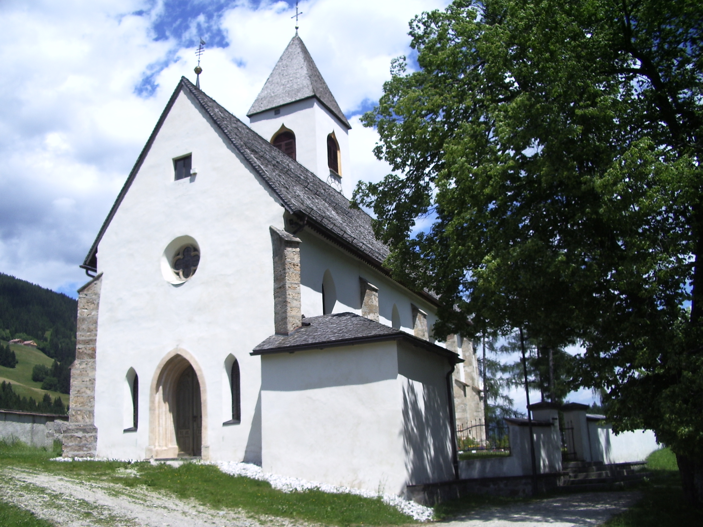 Vierschach (Innichen), St. Magdalena